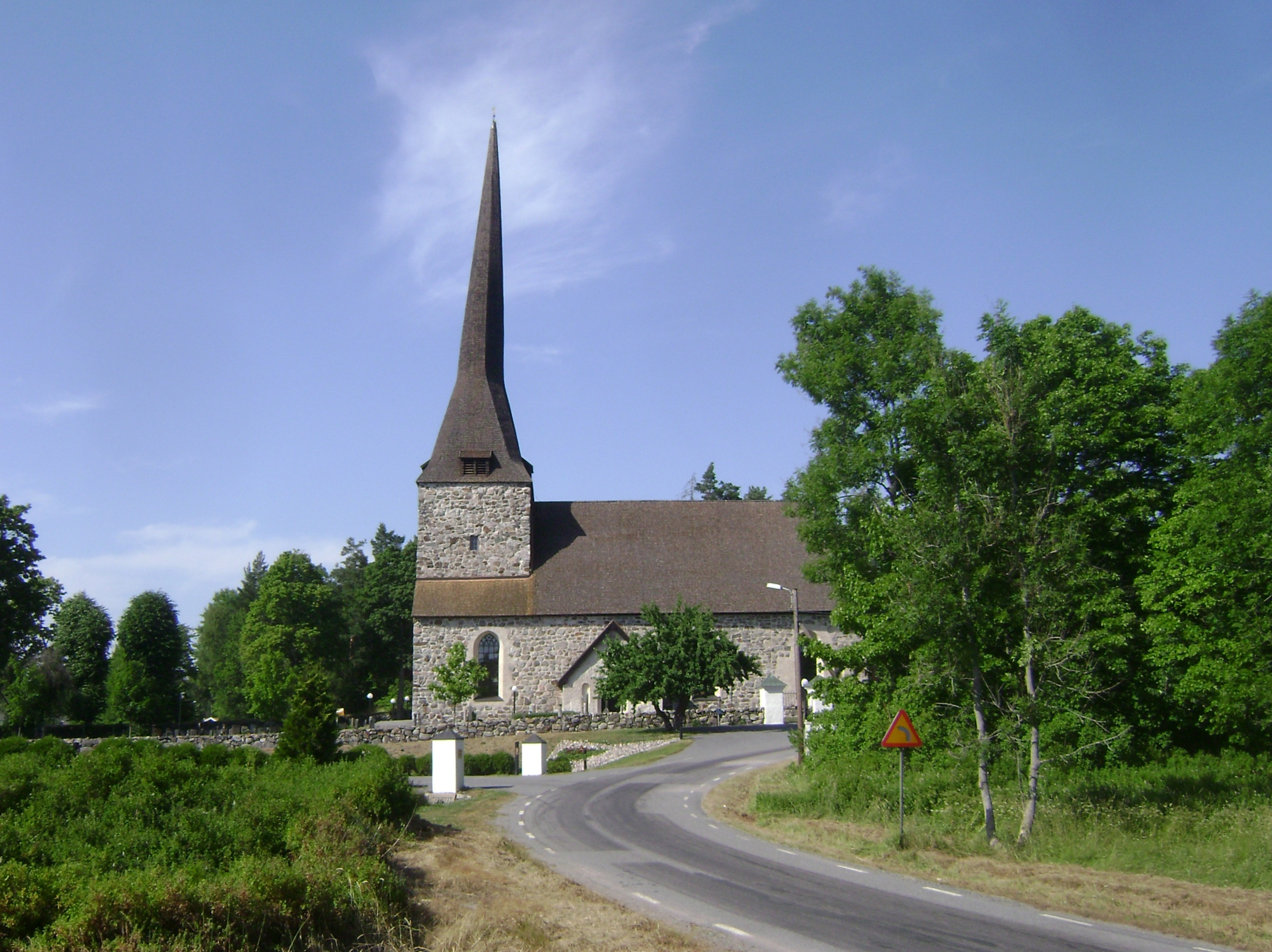 Sweden. Stockholm County. Haninge Municipality. Österhaninge kyrka 2010